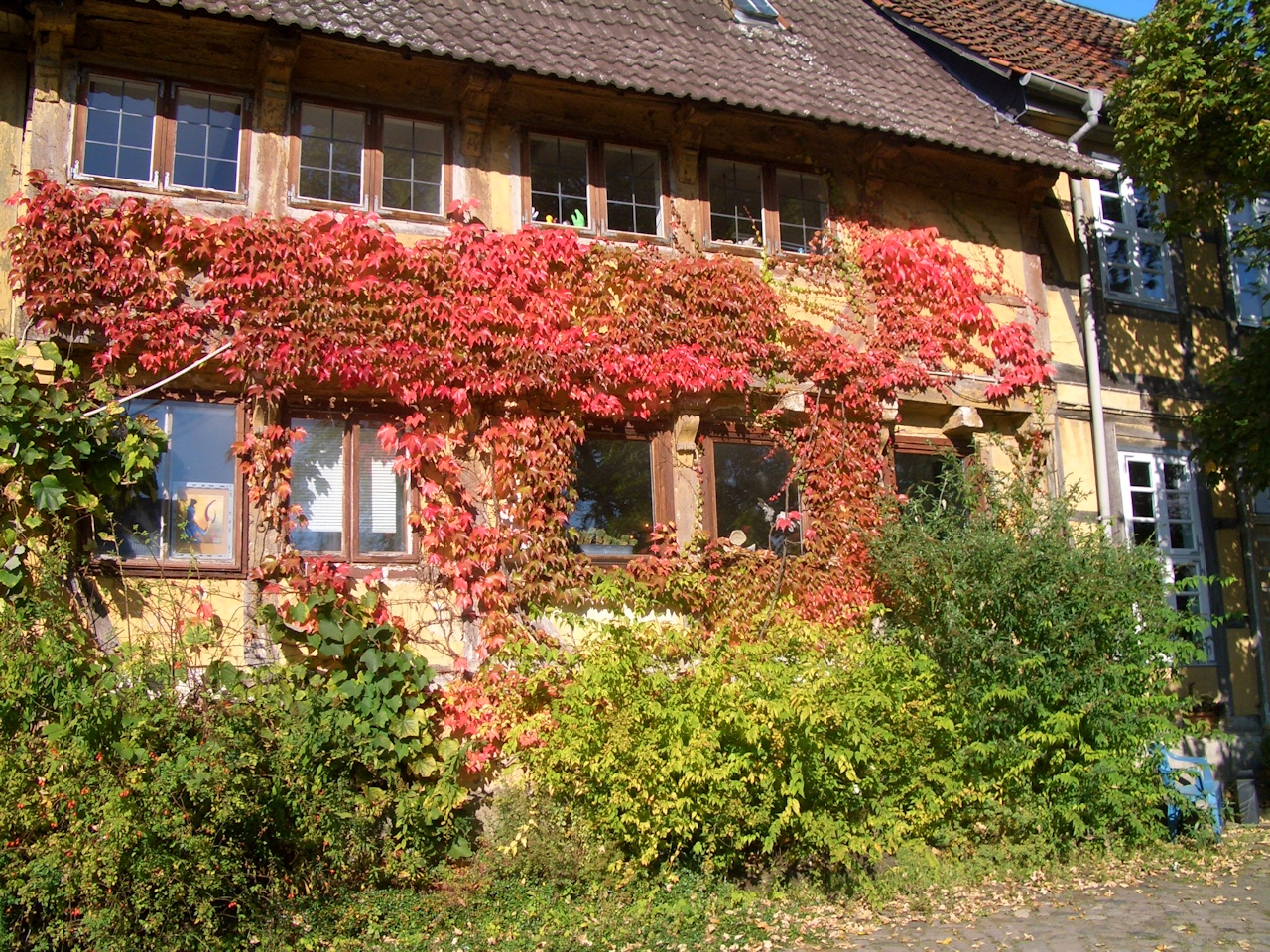 House from 1651, part of Schriftsassenhof in Stöckheim (Braunschweig)